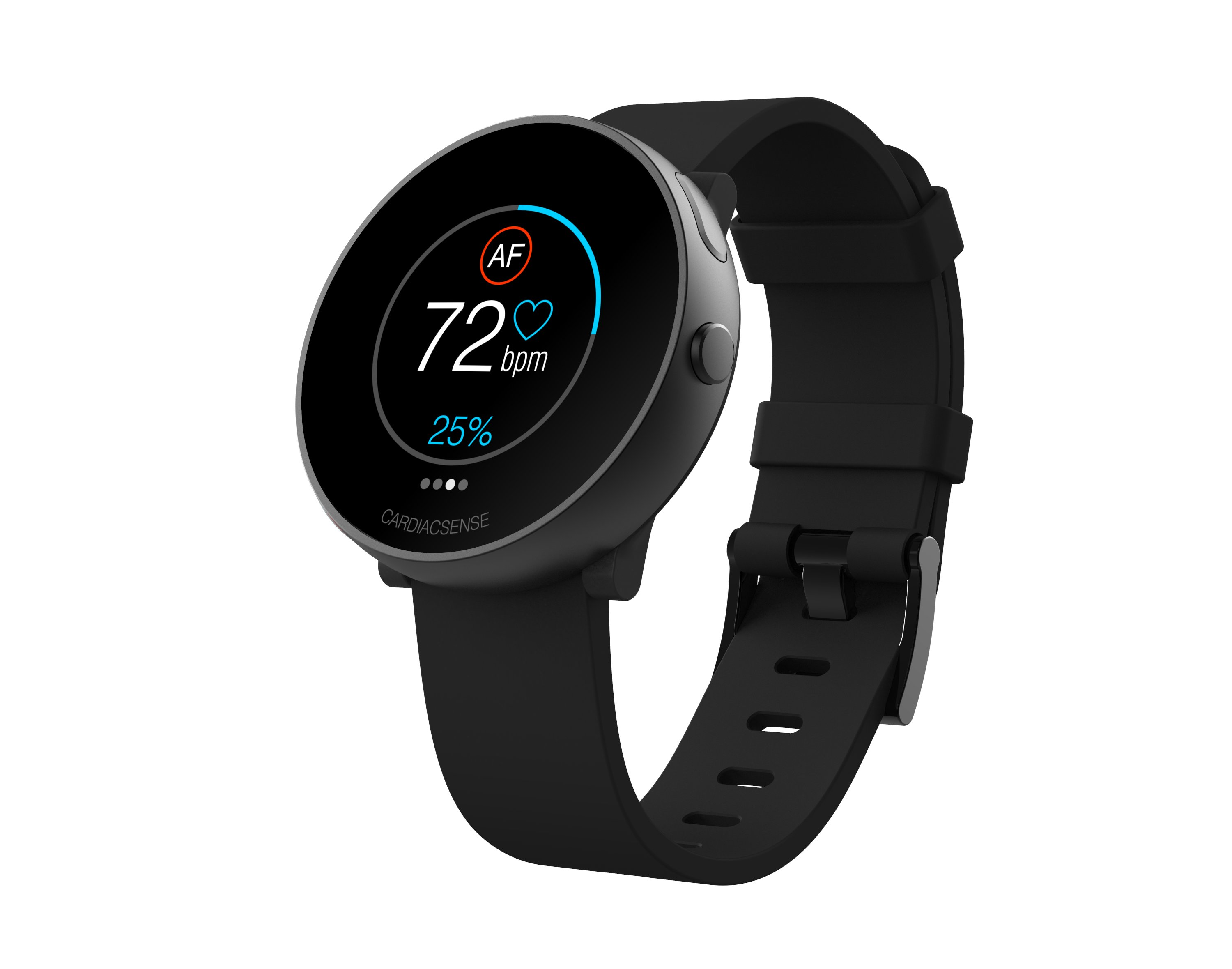 This is the CardiacSense watch that detects heart arrhythmia and measures blood pressure (cuff-less & continuous)